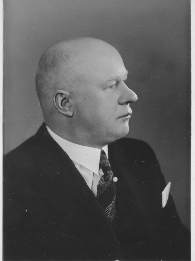 Photograph of the Finnish businessman Juho Kuosmanen (1887–1960).